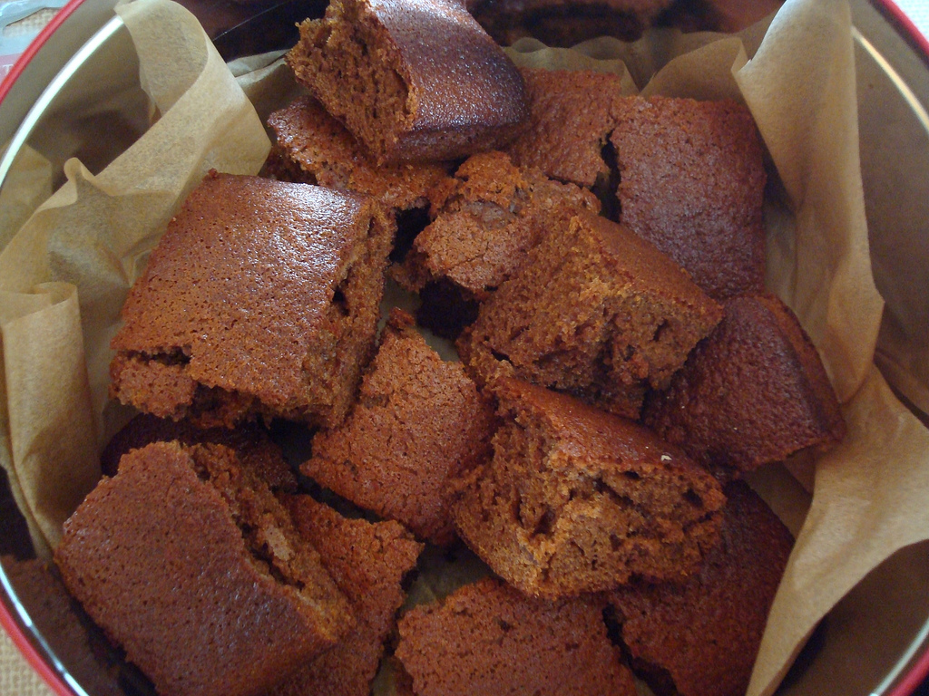 Traditional Yorkshire Parkin cake